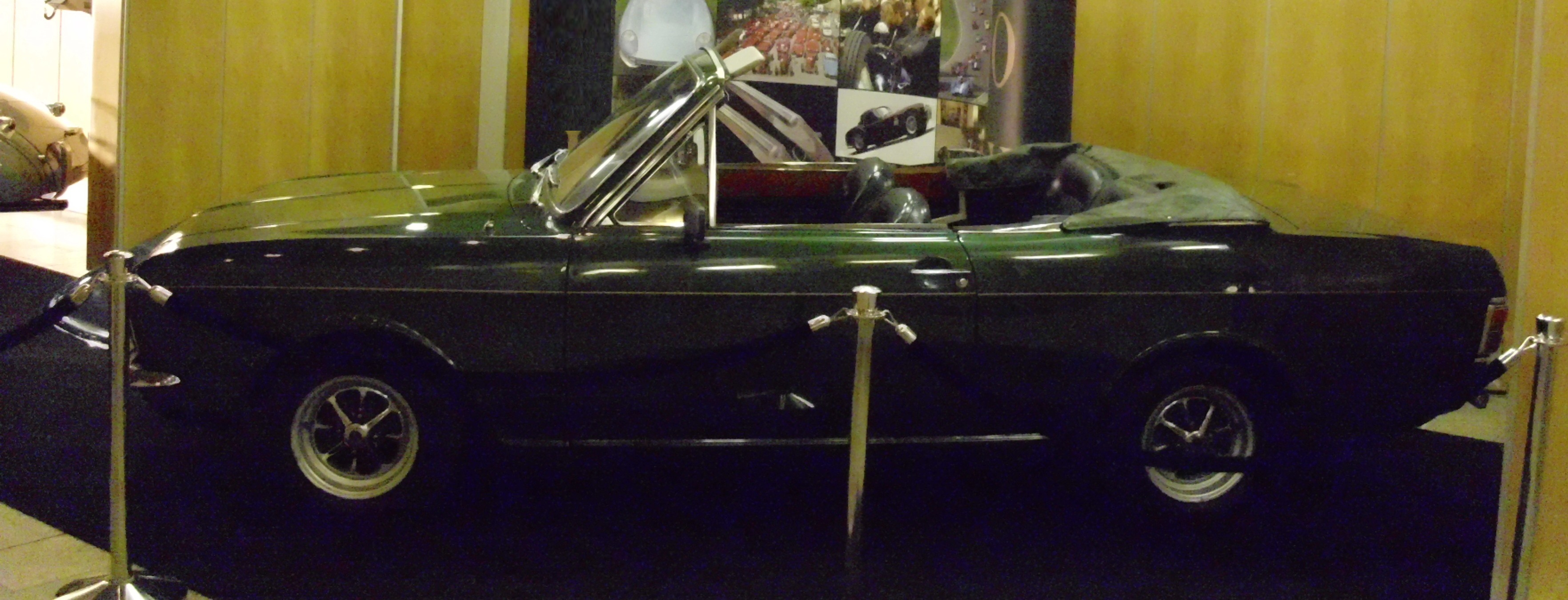 Ford Cortina Mk. 2 Cabriolet Crayford 1968